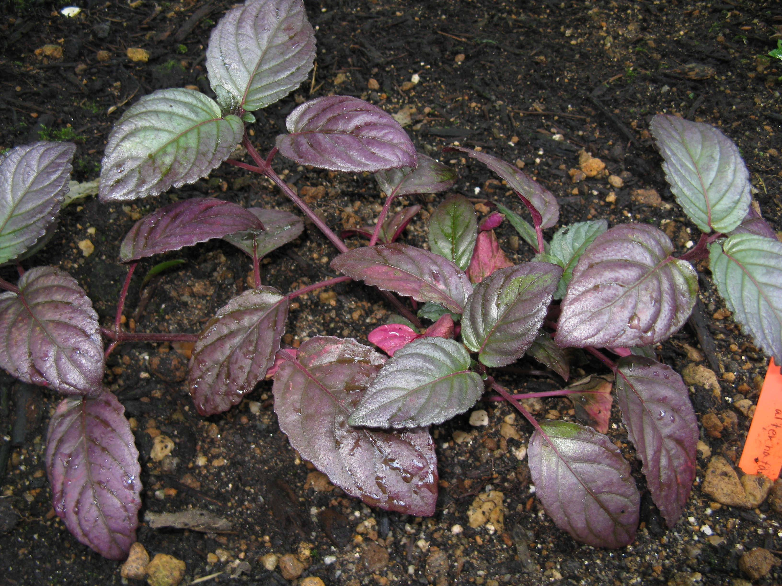 Hemigraphis alternata